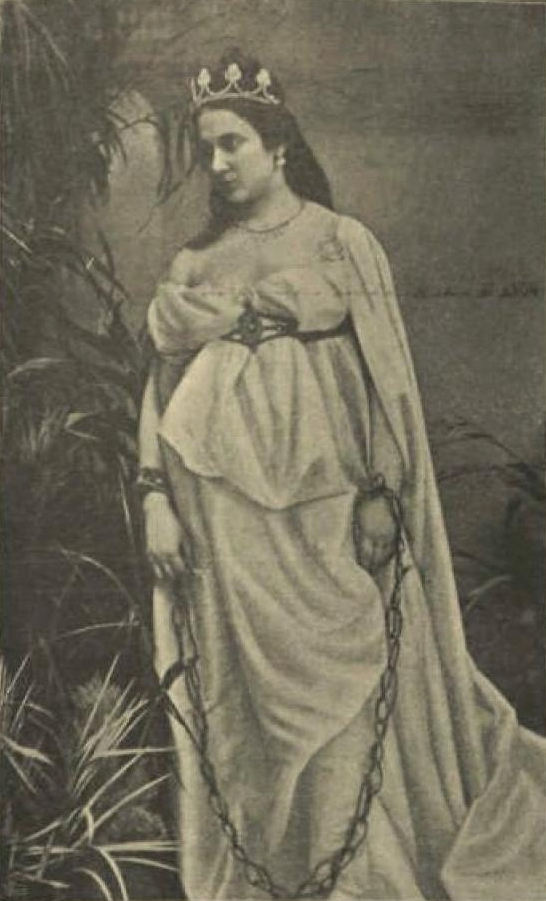 Bella Jókainé Nagy